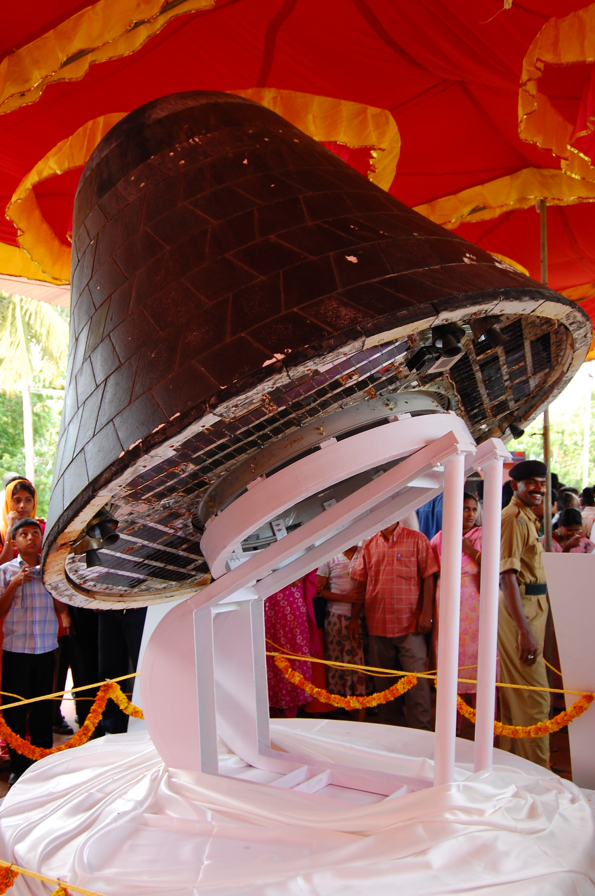 From the public display held at kanakakunnu Palace at trivandrum on April 29th. This is ISROs Space Capsule recovered from the sea. Taken by: Mohanraj K